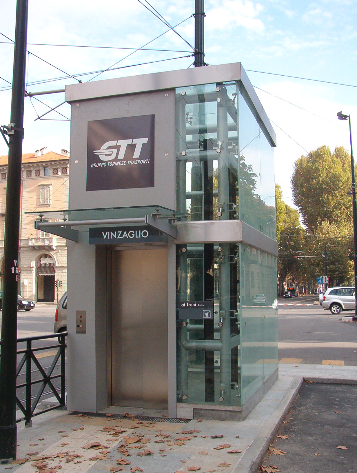 Elevator of the Turin metro station Fermi.